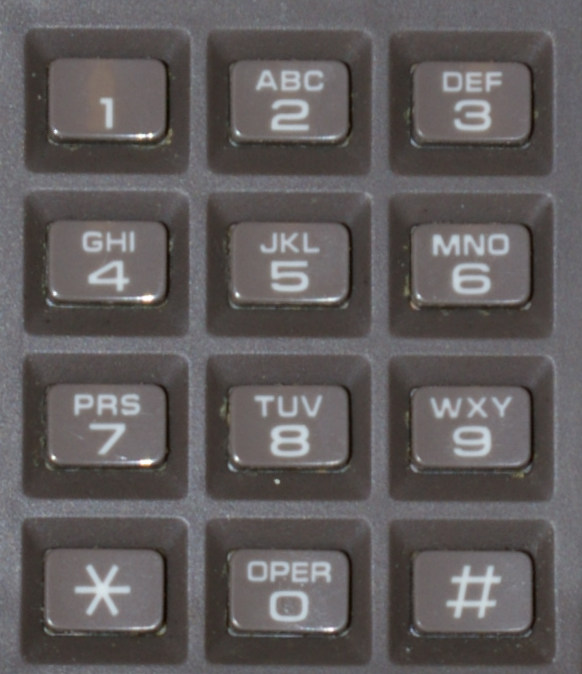 A telephone keypad